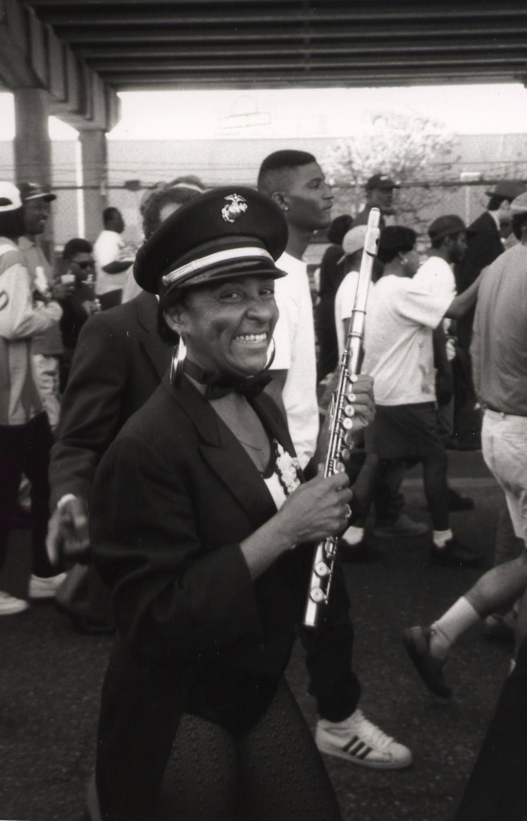 Danny Barker's "Jazz funeral", New Orleans. Flute player, probably Anita Marge Bowers.